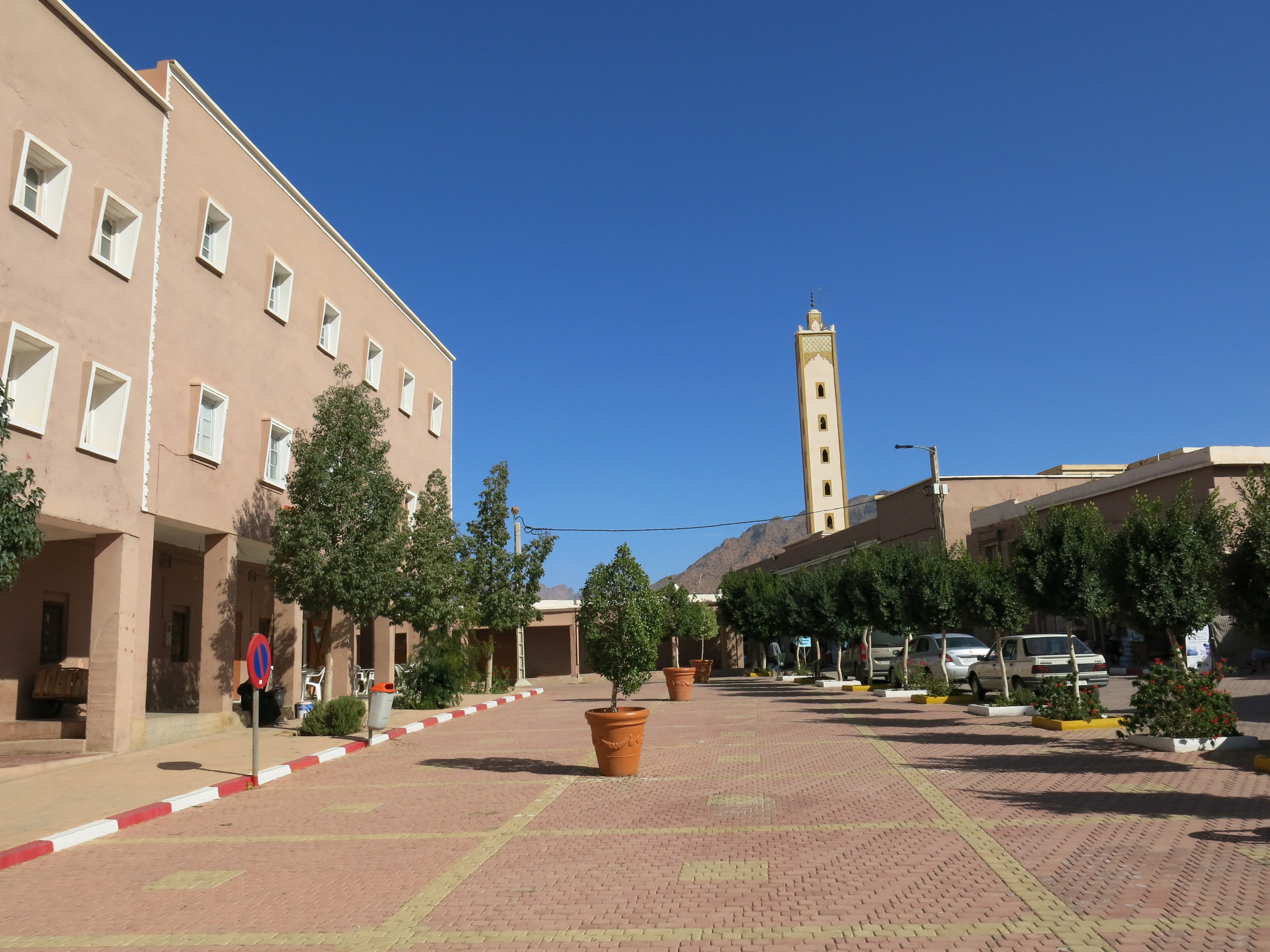 Tafraout, square in the middle of the city